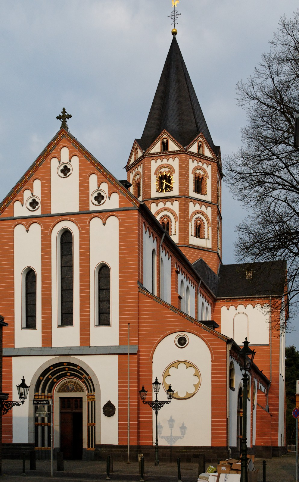 Saint Margareta in Düsseldorf-Gerresheim, Germany